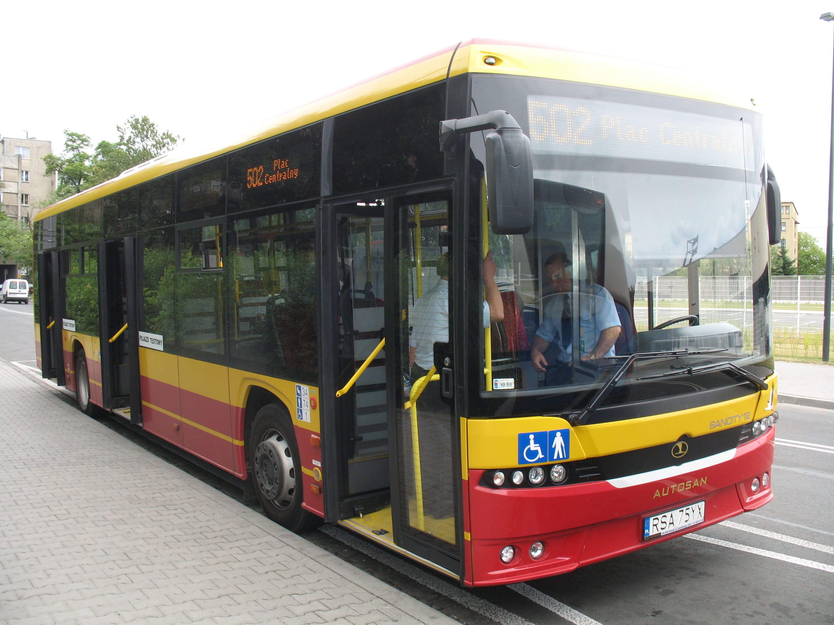 Autosan M12LE Sancity Euro 5 EEV bus prototype in Kraków, Poland. Built 2009. Test bus.